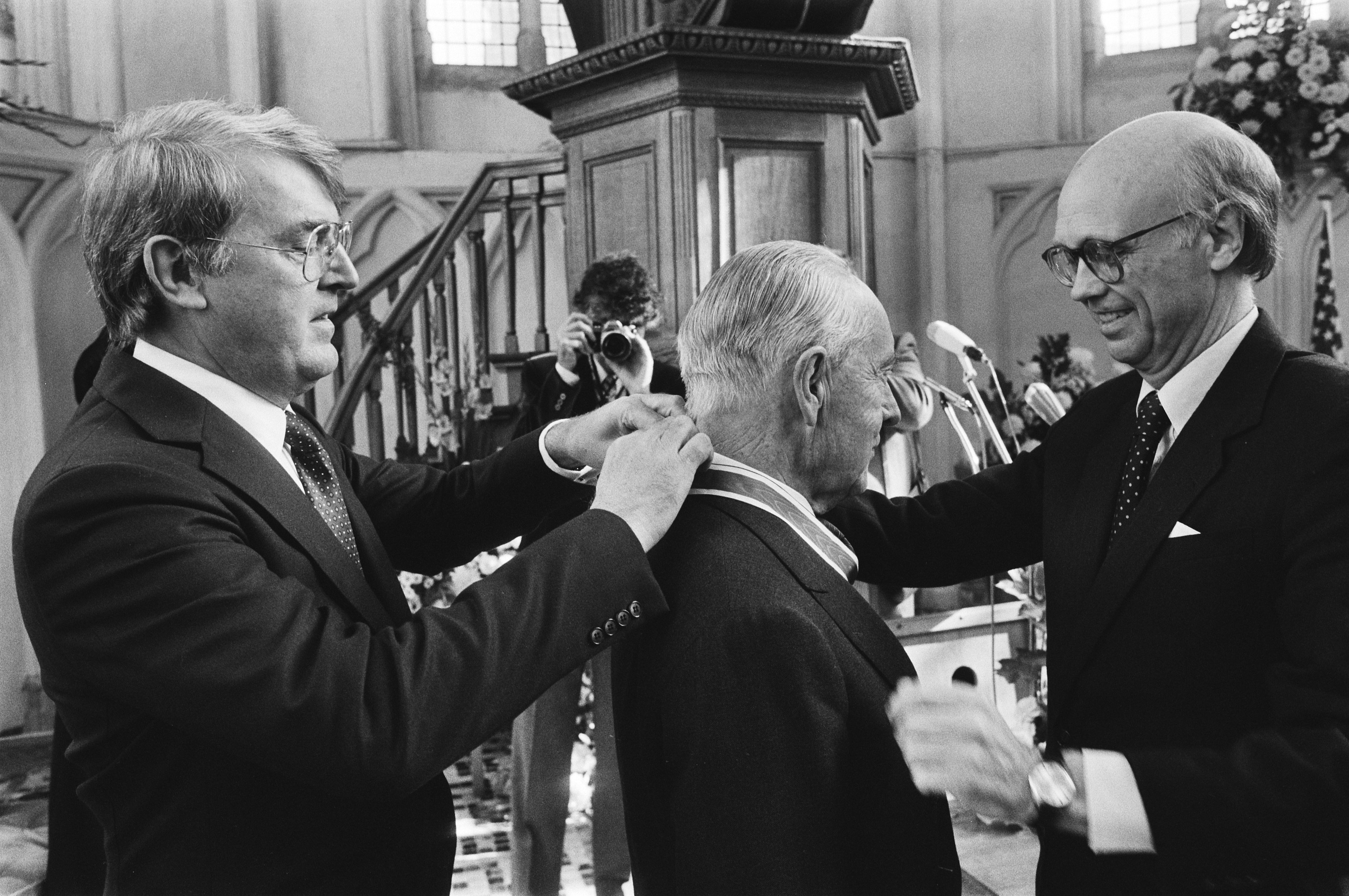 Dr. J. H. van Roijen receives the Freedom from Fear Award from the hands of Curtis Roosevelt. Links to former UN ambassador W.J. van den Heuvel